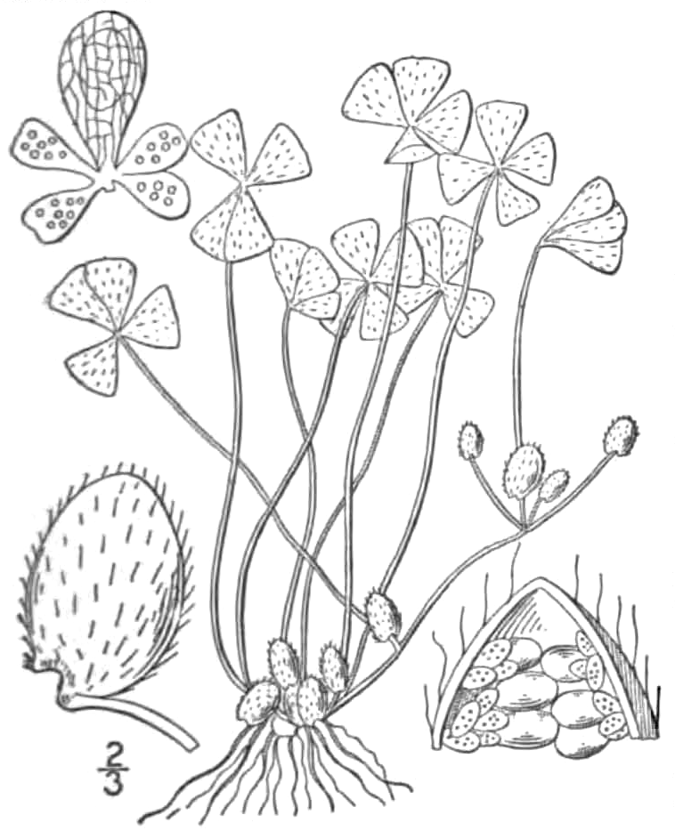 Fig. 86. Marsilea vestita from the second edition of An Illustrated Flora of the Northern United States, Canada and the British Possessions (New York, 1913)